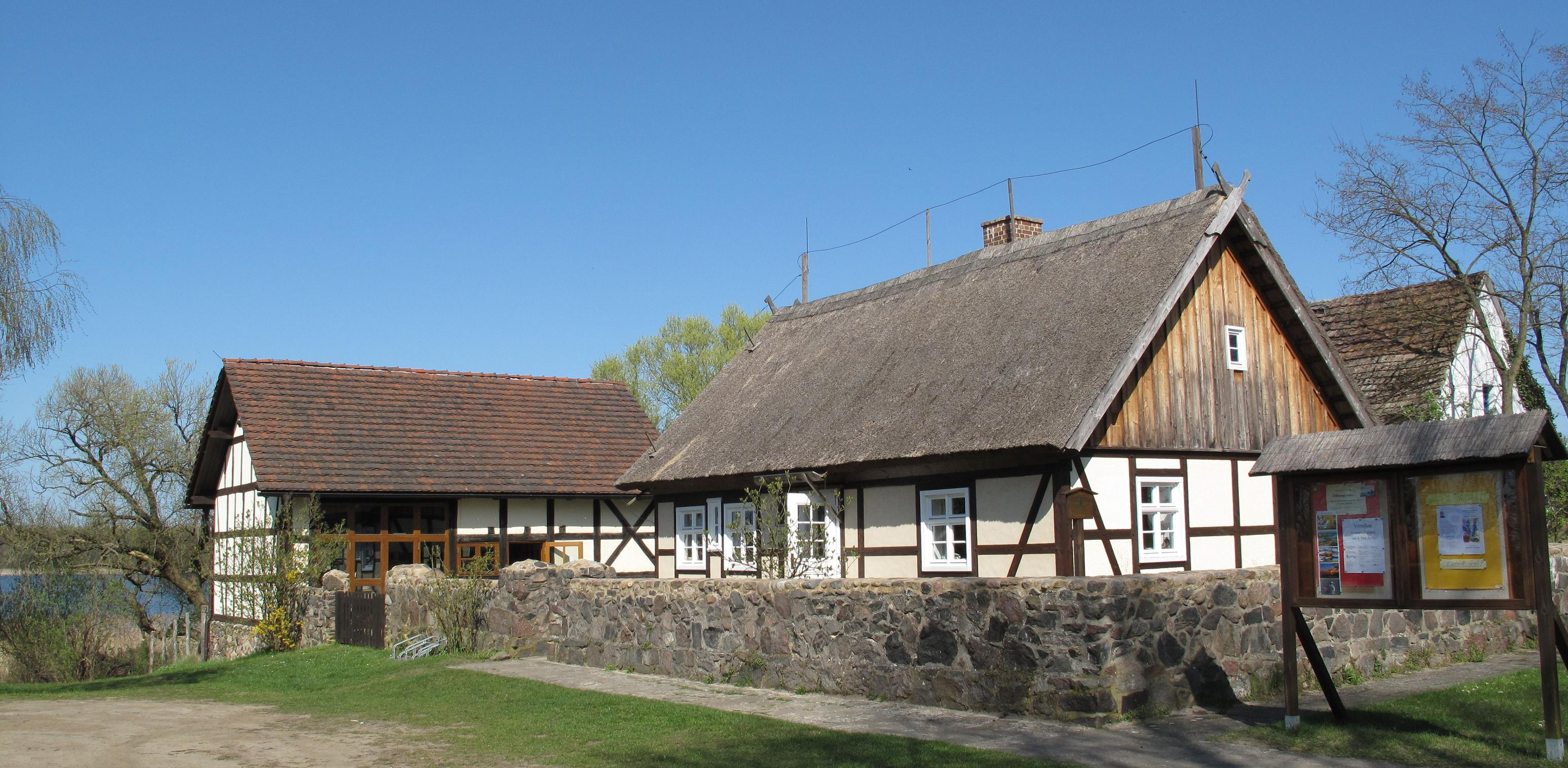 Listed, last and thatched timber framed house in Kähnsdorf. Built around 1700 as private house, between 1825 and 1930 used as school, reconstructed since 1995 and 2001 opened as cultural village hall and local history museum. The Großer Seddiner See is a glacial lake in the nature park Nuthe-Nieplitz in Germany, Brandenburg, district Potsdam-Mittelmark, and covers 2,18 km². The lake is situated in the municipalities Seddiner See and Michendorf.